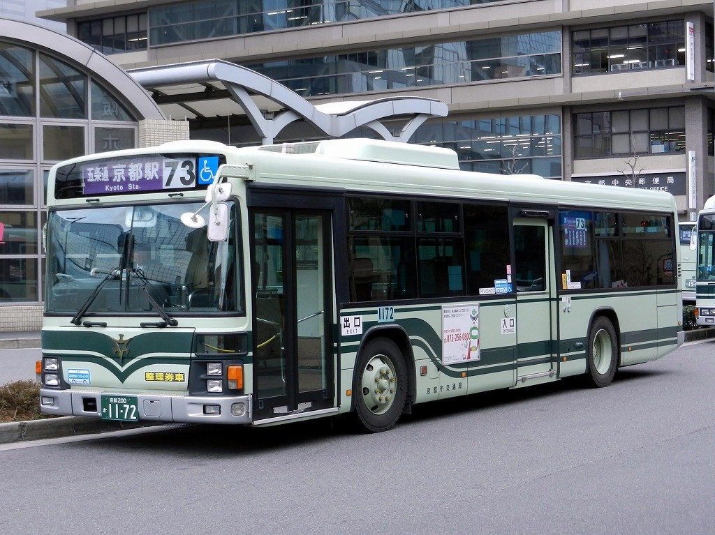 Kyoto city bus Isuzu Erga Nonstep bus (PJ-LV234N1)